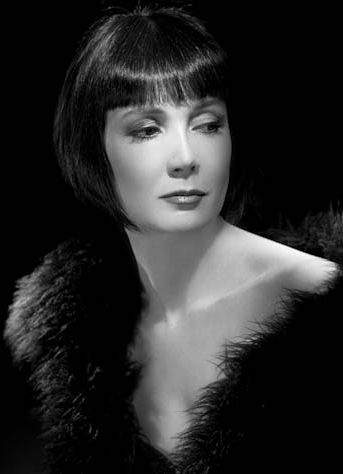 Sabine Azéma photographed by Studio Harcourt Paris